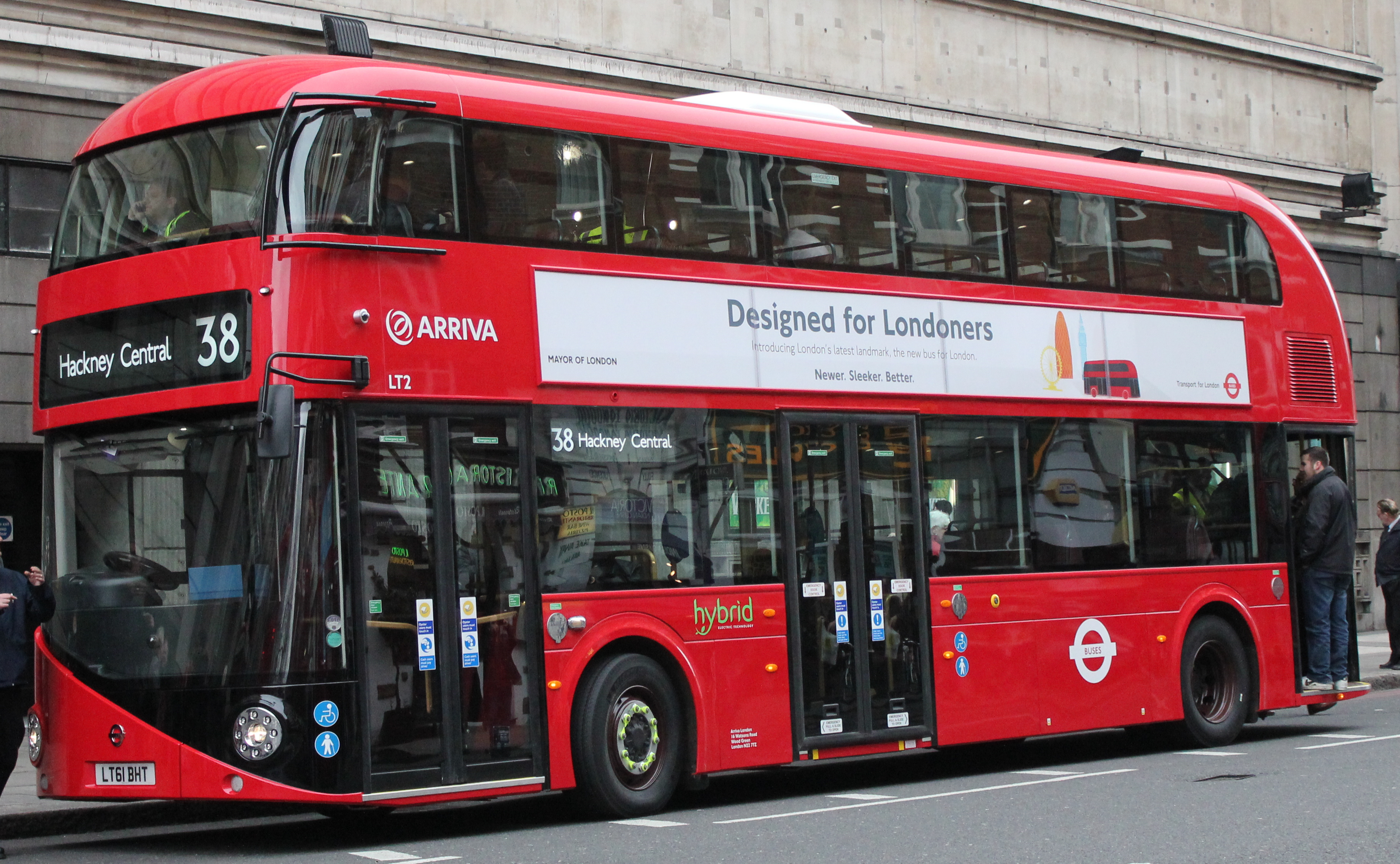 Arriva London bus LT2 (reg. LT61 BHT), the second of the batch of 8 pre-production working prototypes of the New Bus for London. Along with LT1, it entered trial revenue earning service for the first time today, operating on Arriva's London Buses route 38 as additional short worked extras. It's pictured inbetween journeys, parked up at the Vauxhall Bridge Road bus stands alongside the Apollo Victoria Theatre. Victoria bus station is just around the corner behind the bus.